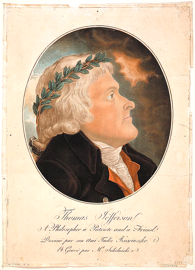 Thomas Jefferson by Tadeusz Kościuszko, Copyprint of colored aquatint by Michał Sokolnicki